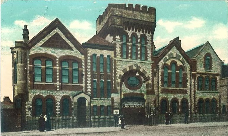 Cross Lane Drill Hall, Salford (Old Postcard)